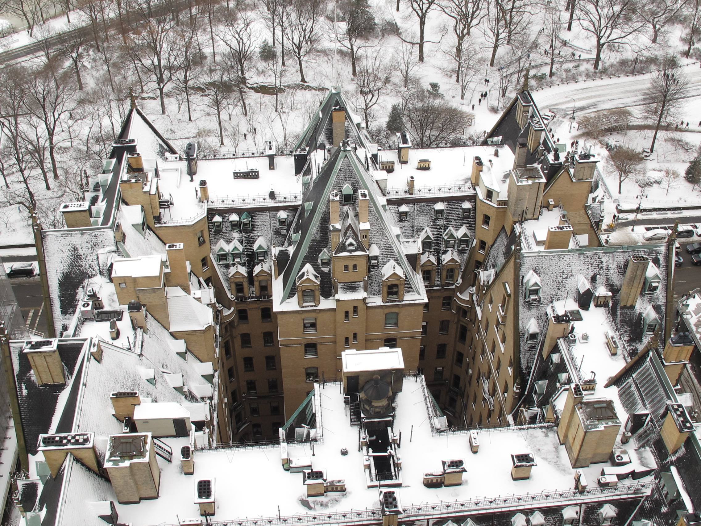 snowed the Dakota